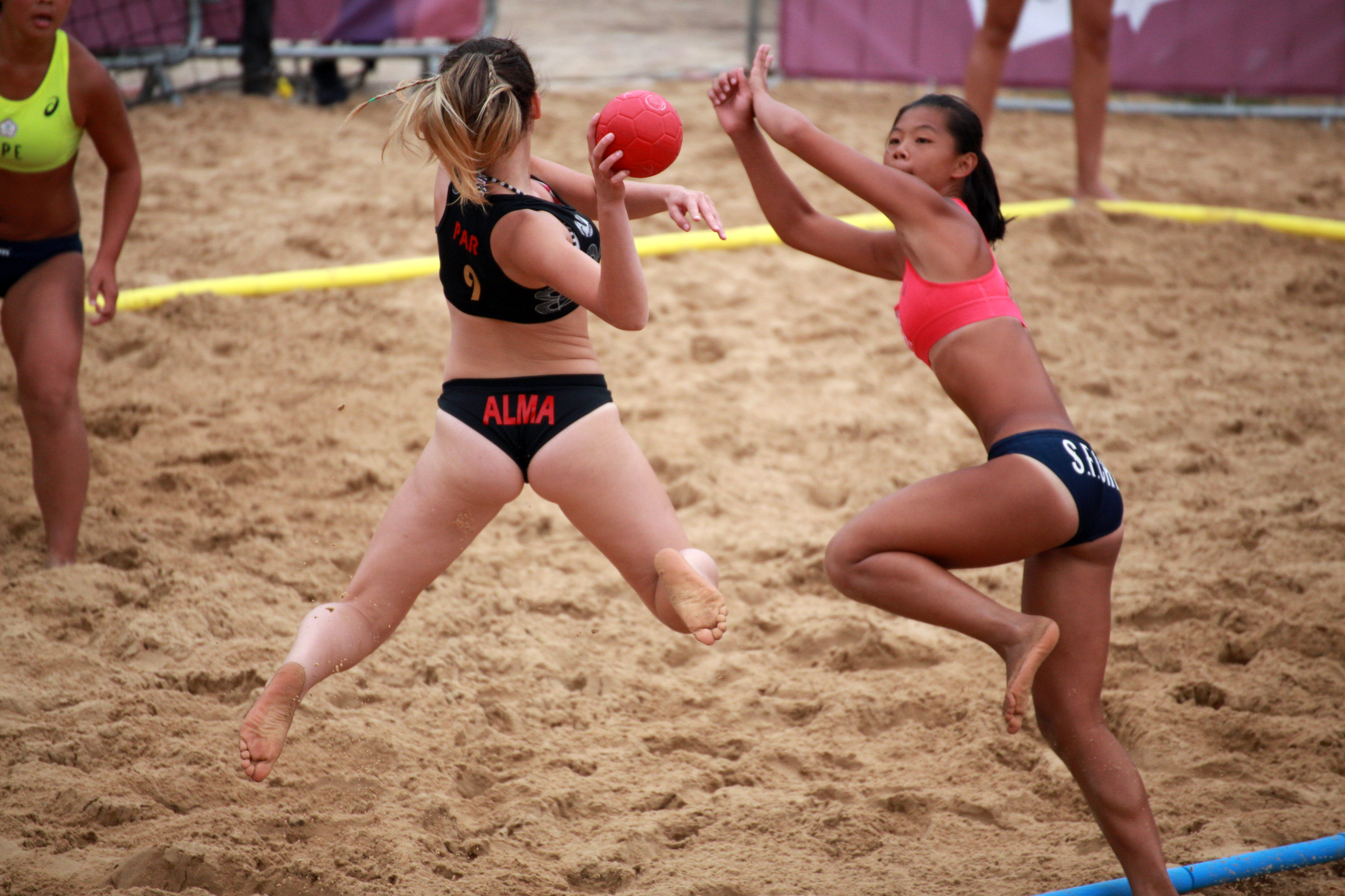 Beach handball at the 2018 Summer Youth Olympics at 12 October 2018 – Girls Main Round – Chinese Taipei (Taiwan)-Paraguay 0:2